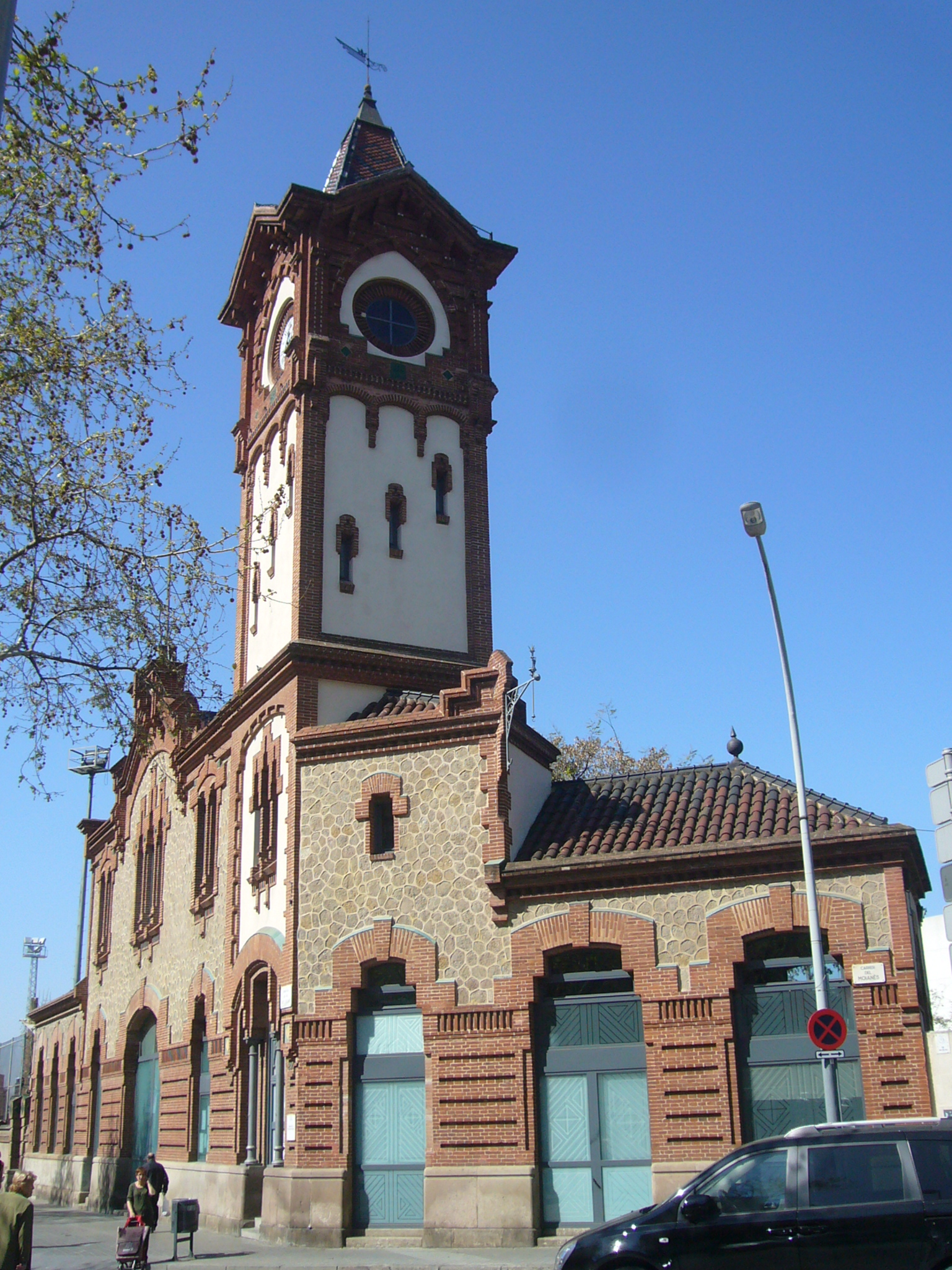 Estació de la Magòria